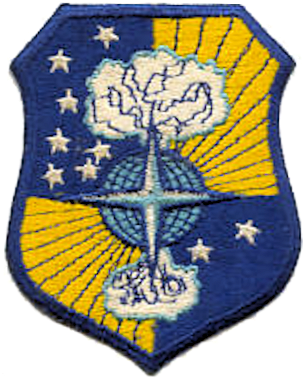 Emblem of the 72d Bombardment Wing (SAC)